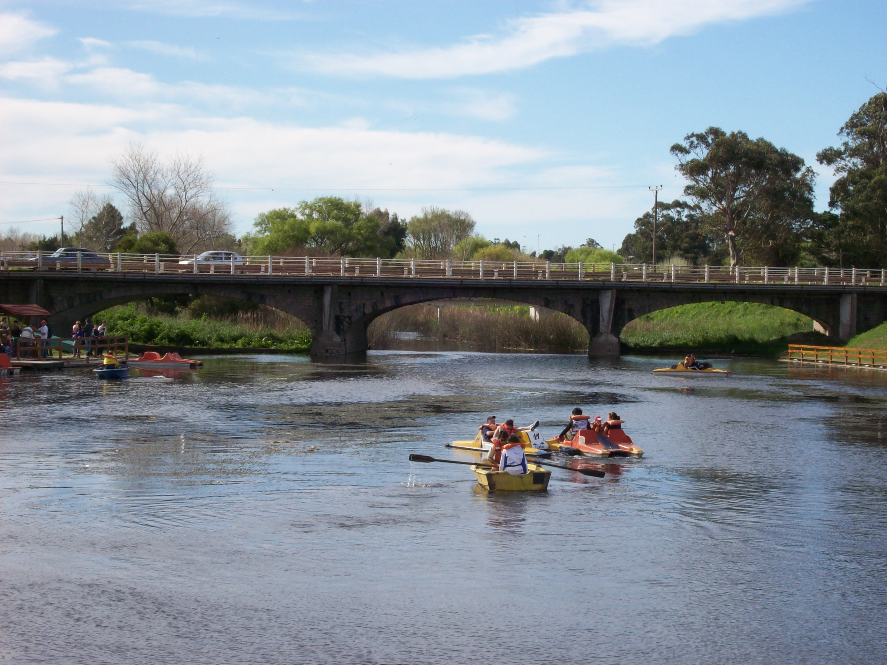 Provincial Route 11 bridge over Arroyo Chapadmalal, a stream located in Playa Chapadmalal, Buenos Aires Province, Argentina.